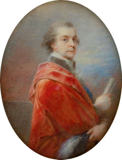 Portrait of Michał Jerzy Wandalin MniszechБеларуская (тарашкевіца): Партрэт Міхала Юрыя Вандаліна Мнішка (1748-1806)